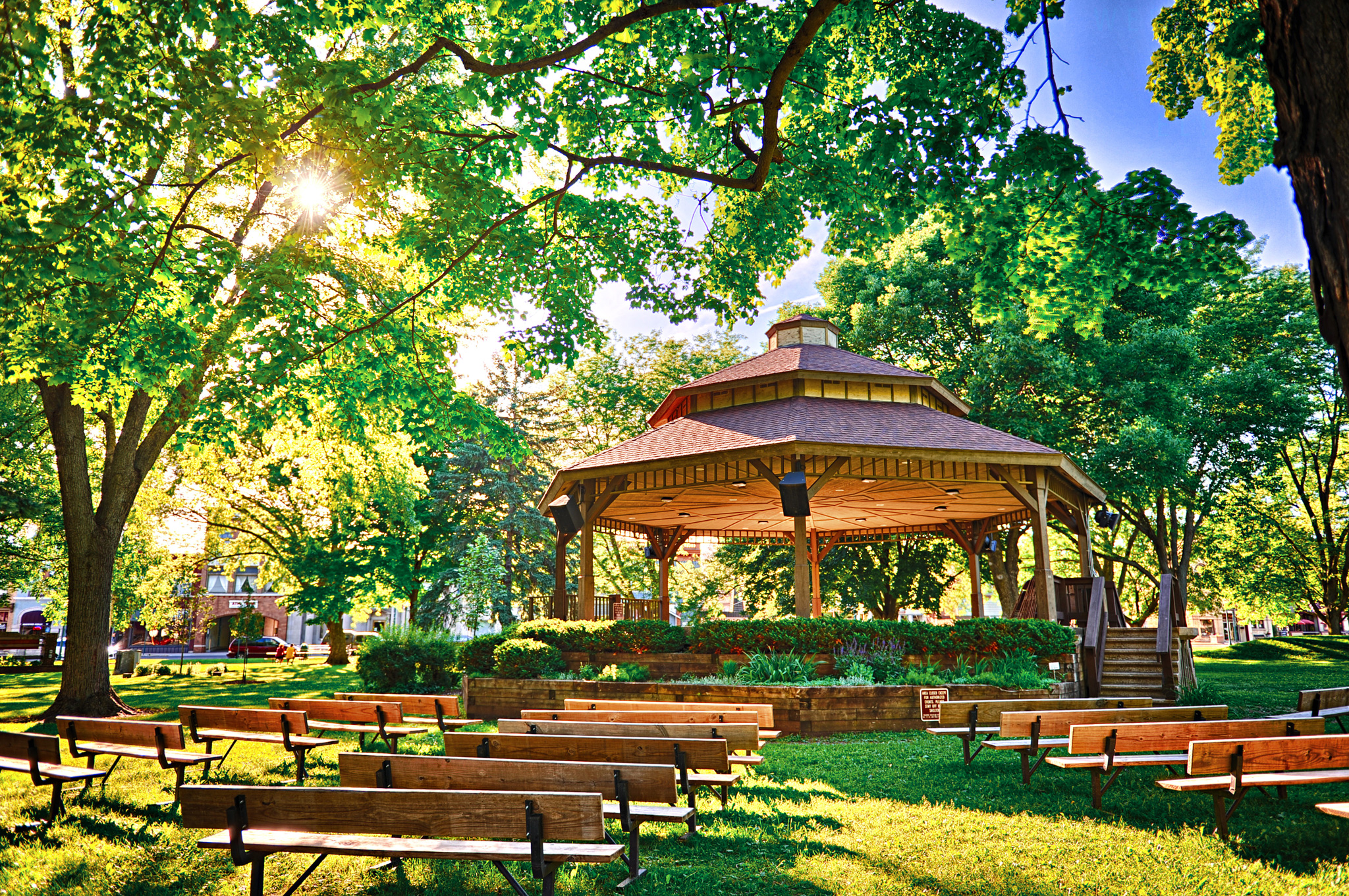 Franklin Else Bandstand in Commons Park, Downtown Lake Mills